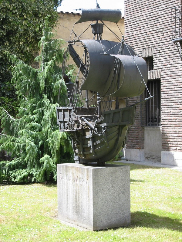 House of Columbus in Valladolid